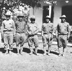 US Army Apache Scouts, (Left to right) First Sergeant Chicken, Jesse Palmer, Tea Square, Sgt. Big Chow, and Corporal C.F. Josh, in front of the adjutant’s office at Fort Apache in 1919. Photo by Lieutenant H. B. Wharfield, 10th Cavalry.